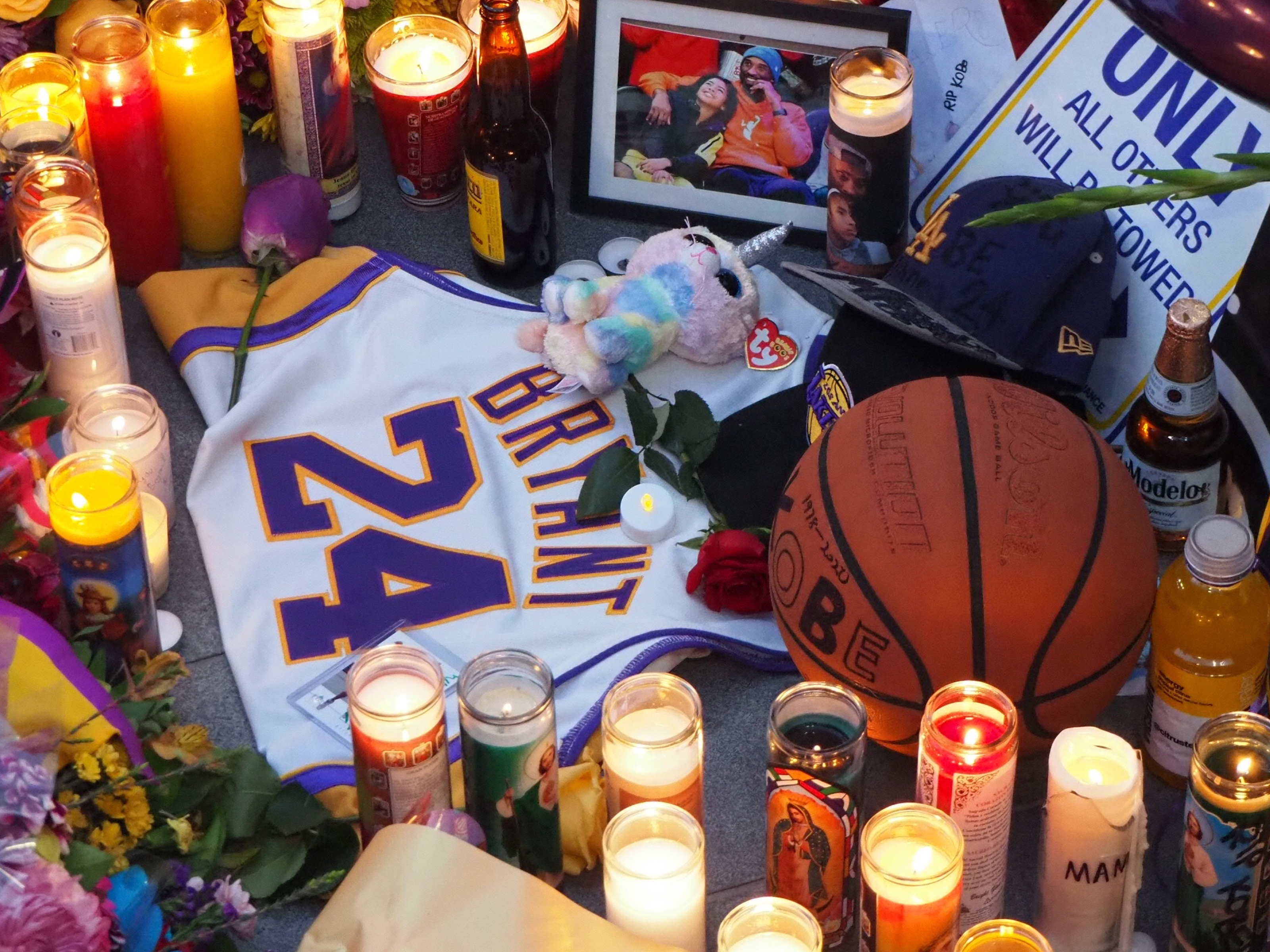 Kobe Bryant memorial at Staples Center on Jan. 26, 2020.